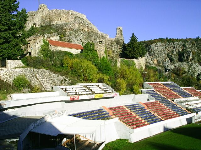 Town of Imotski, Croatia